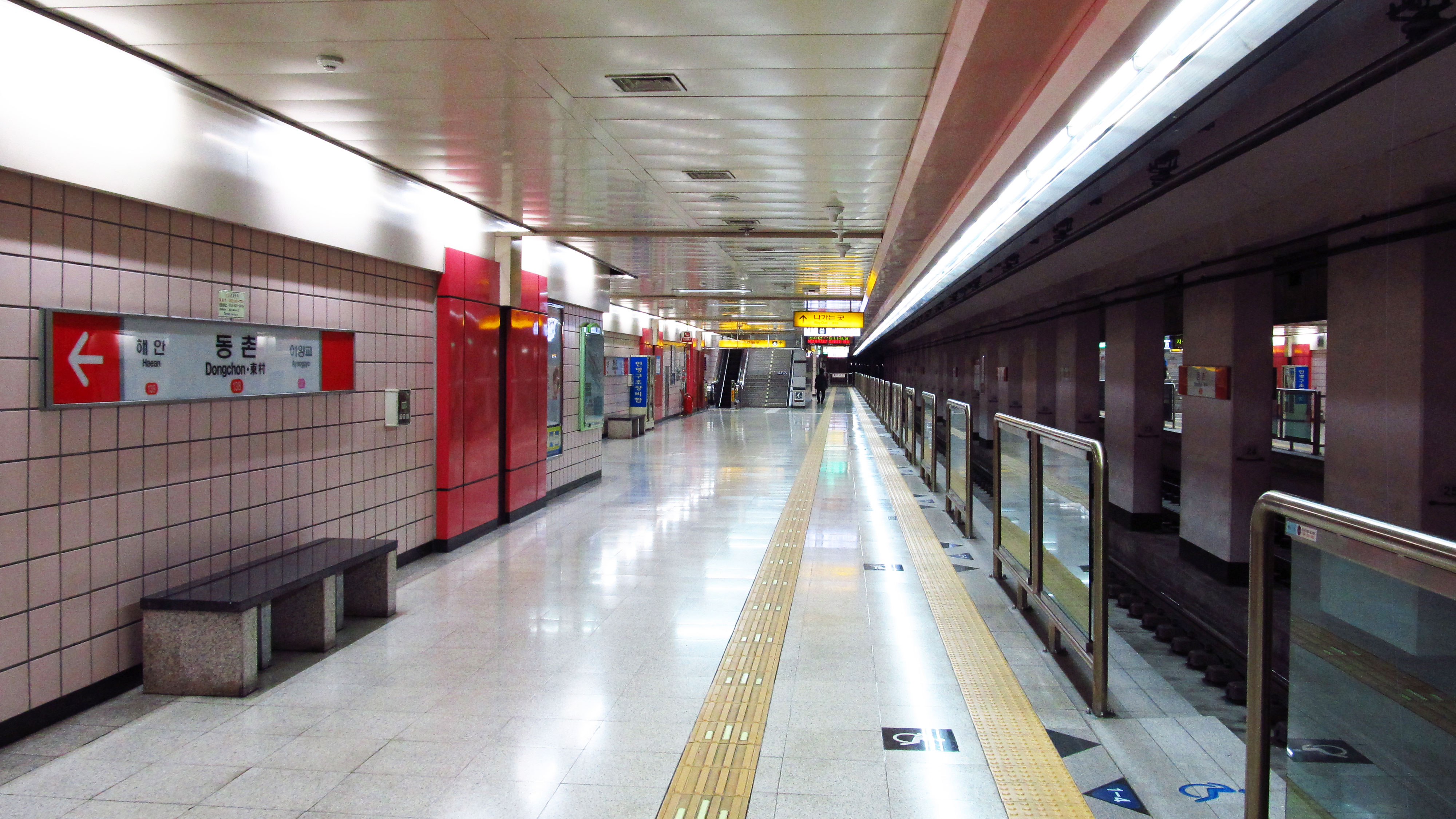 The platform of Dongchon Station on the Daegu Metro Line 1, for Haean, Ansim